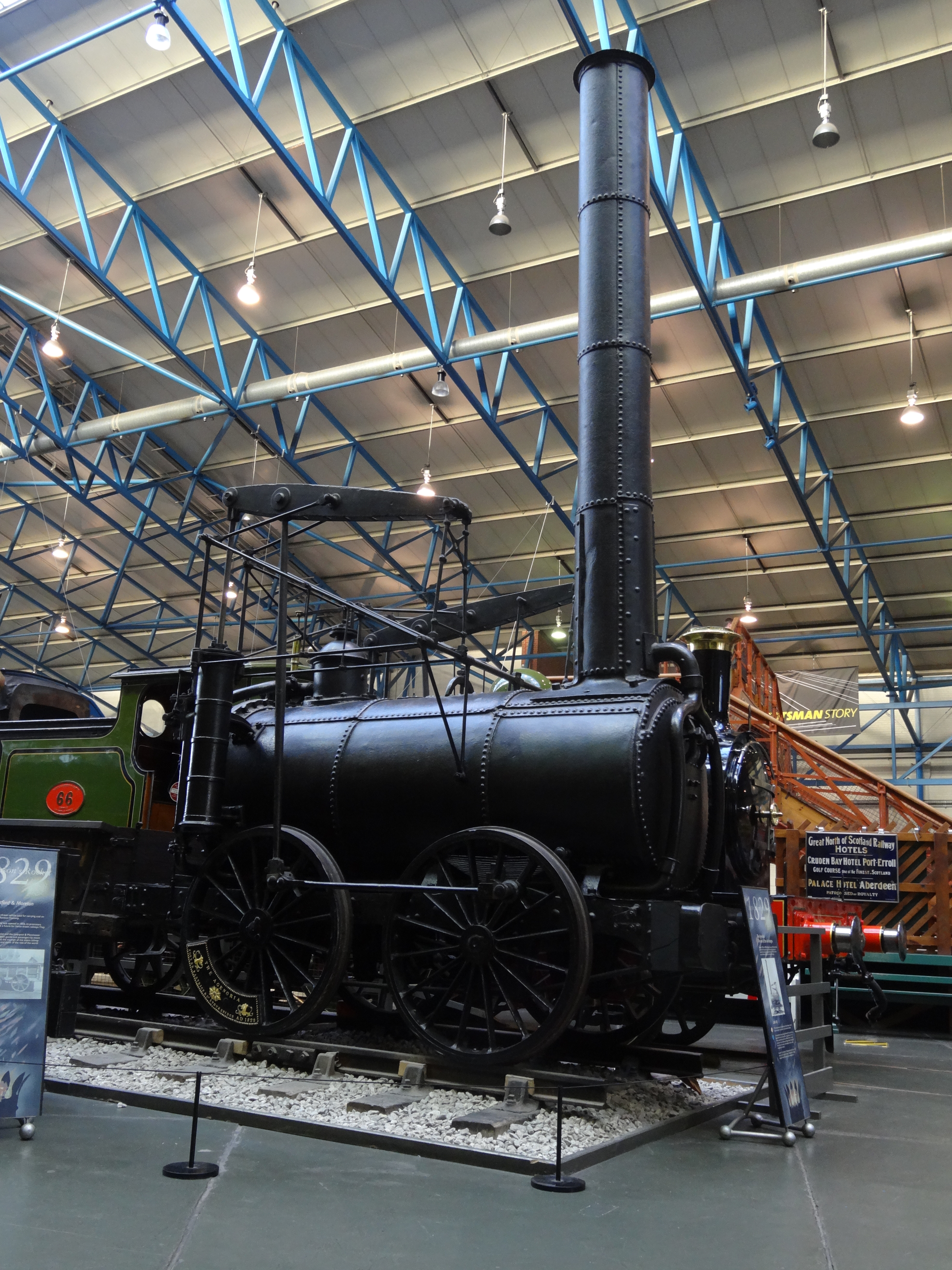 taken at the National Railway Museum York